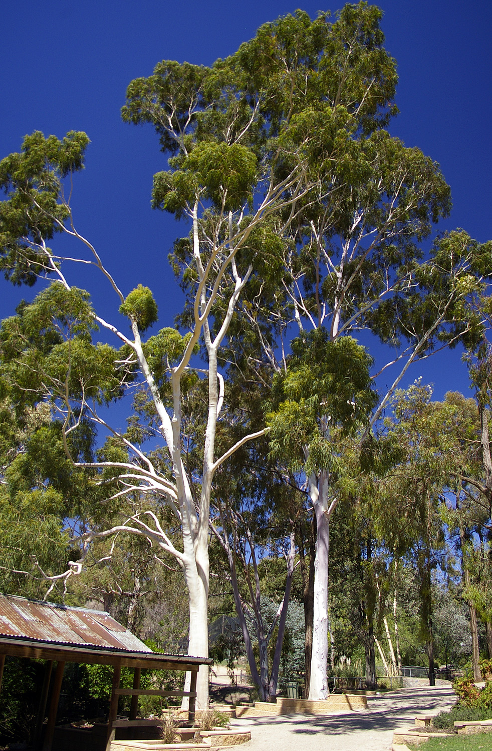 Lemon-scented Gum (Corymbia citriodora) in the Botanic Garden Zoo (Also called Wagga Zoo) at the Wagga Wagga Botanic Gardens.